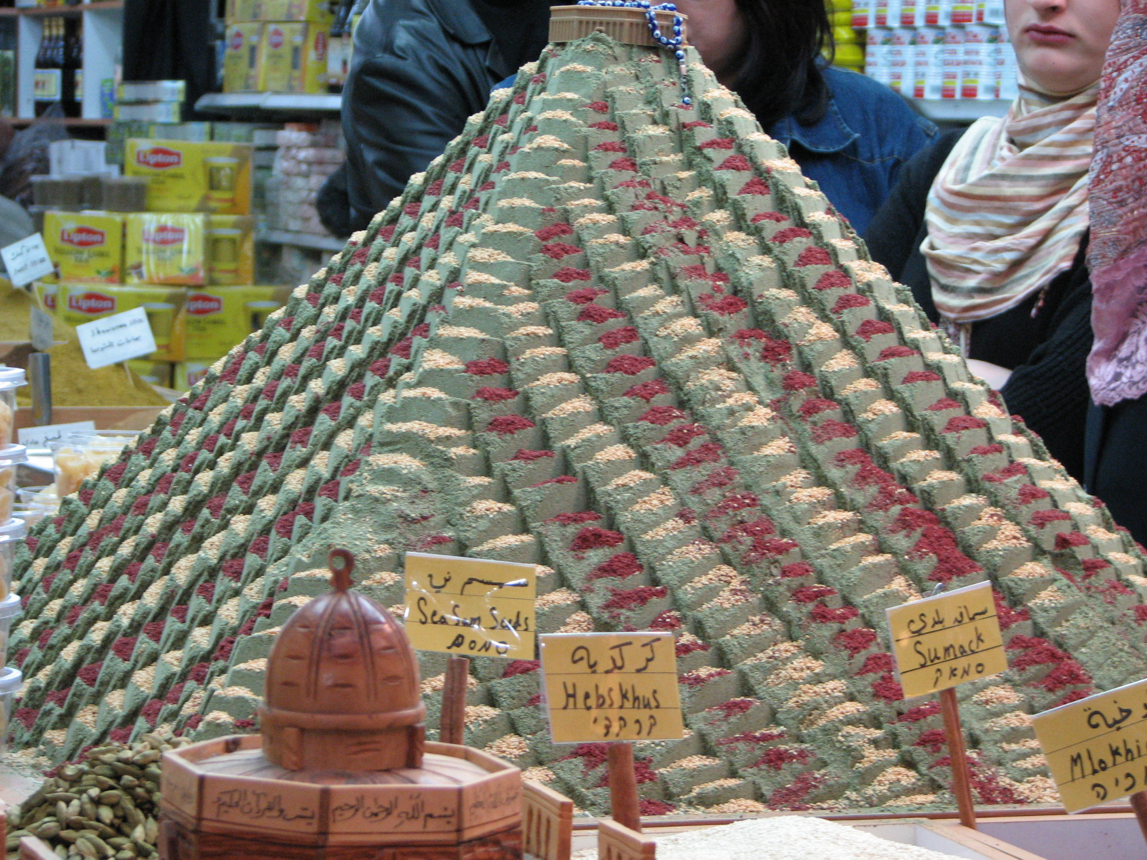 Old Jerusalem, Suk Khan Az-Zait, AL-QUDS GROCERY - Spices on display at spice and perfume market in old Jerusalem